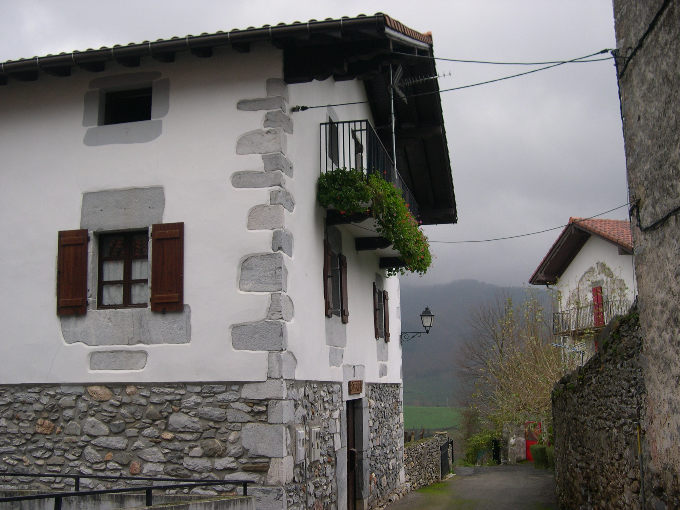 Igantzi North Navarre basque houses